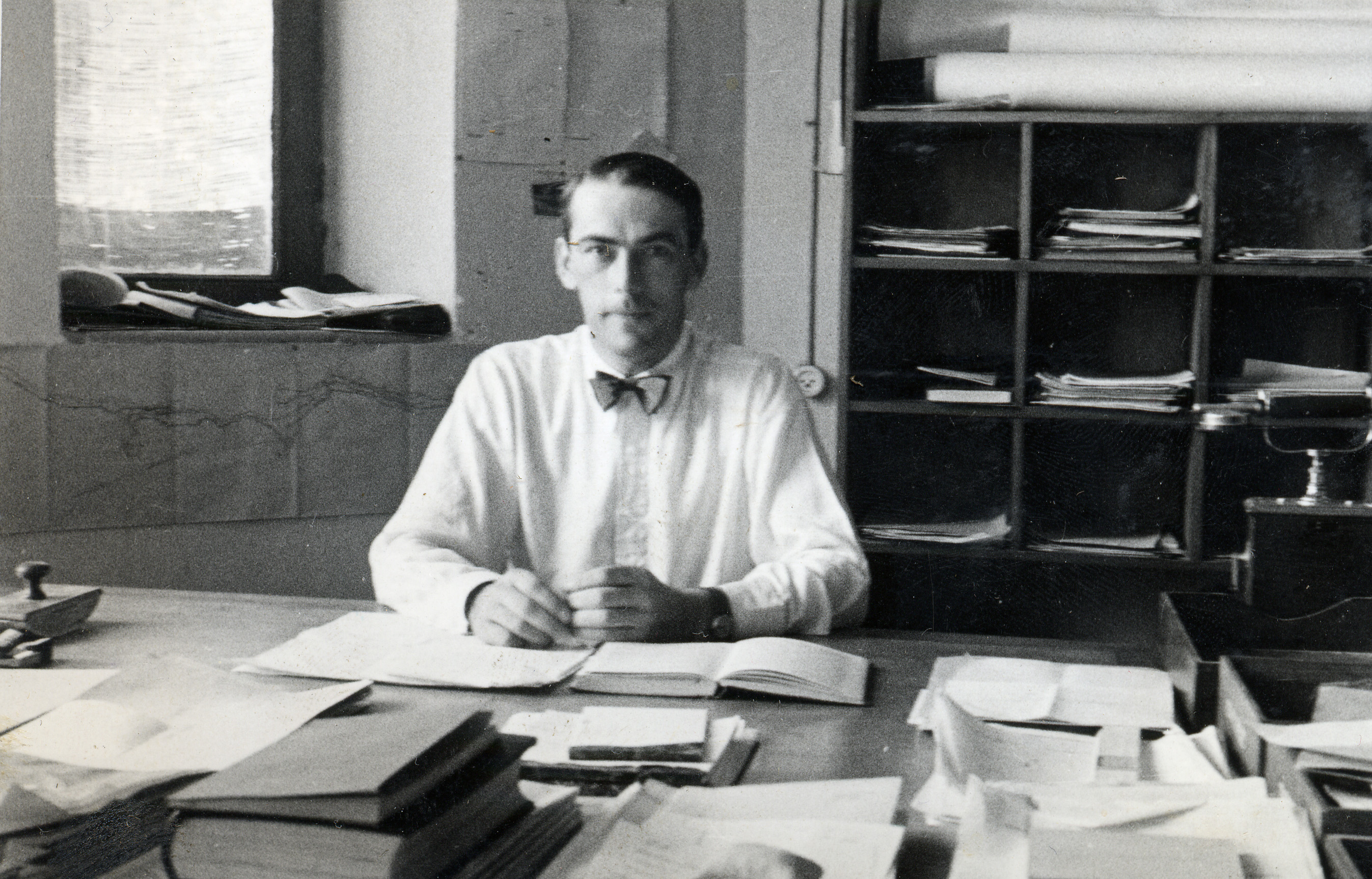 The Norwegian civil engineer Ole Didrik Lærum, portrayed in his office at Consortium Kampsax